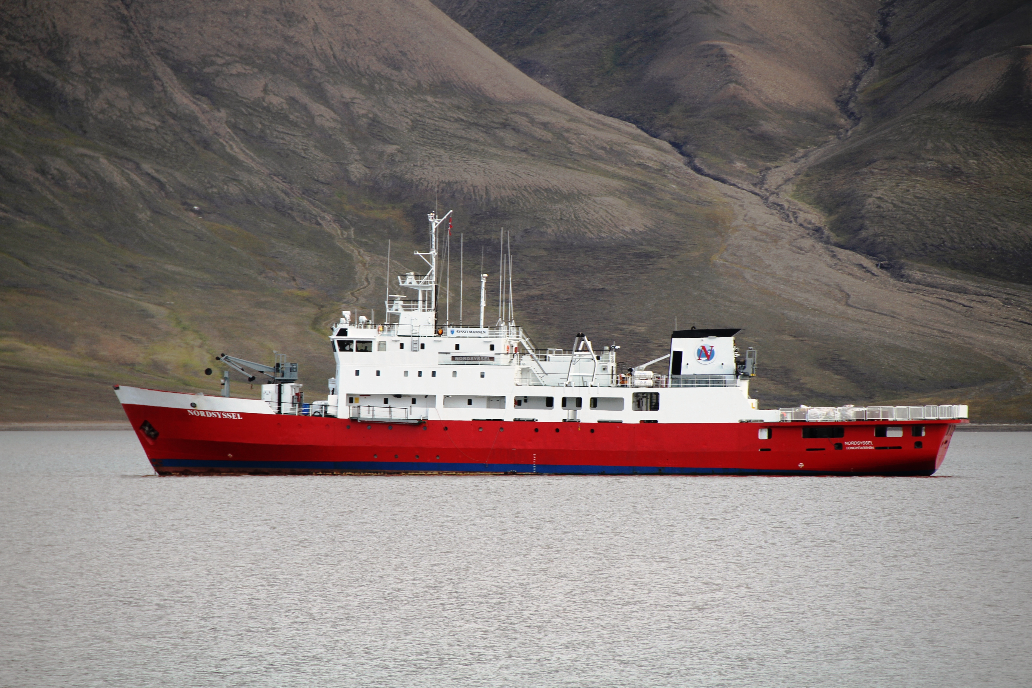 The Nordsyssel ship, belonging to the Governor of Svalbard (Sysselmannen på Svalbard). Here at the Svalbard archipelago (Adventfjorden)